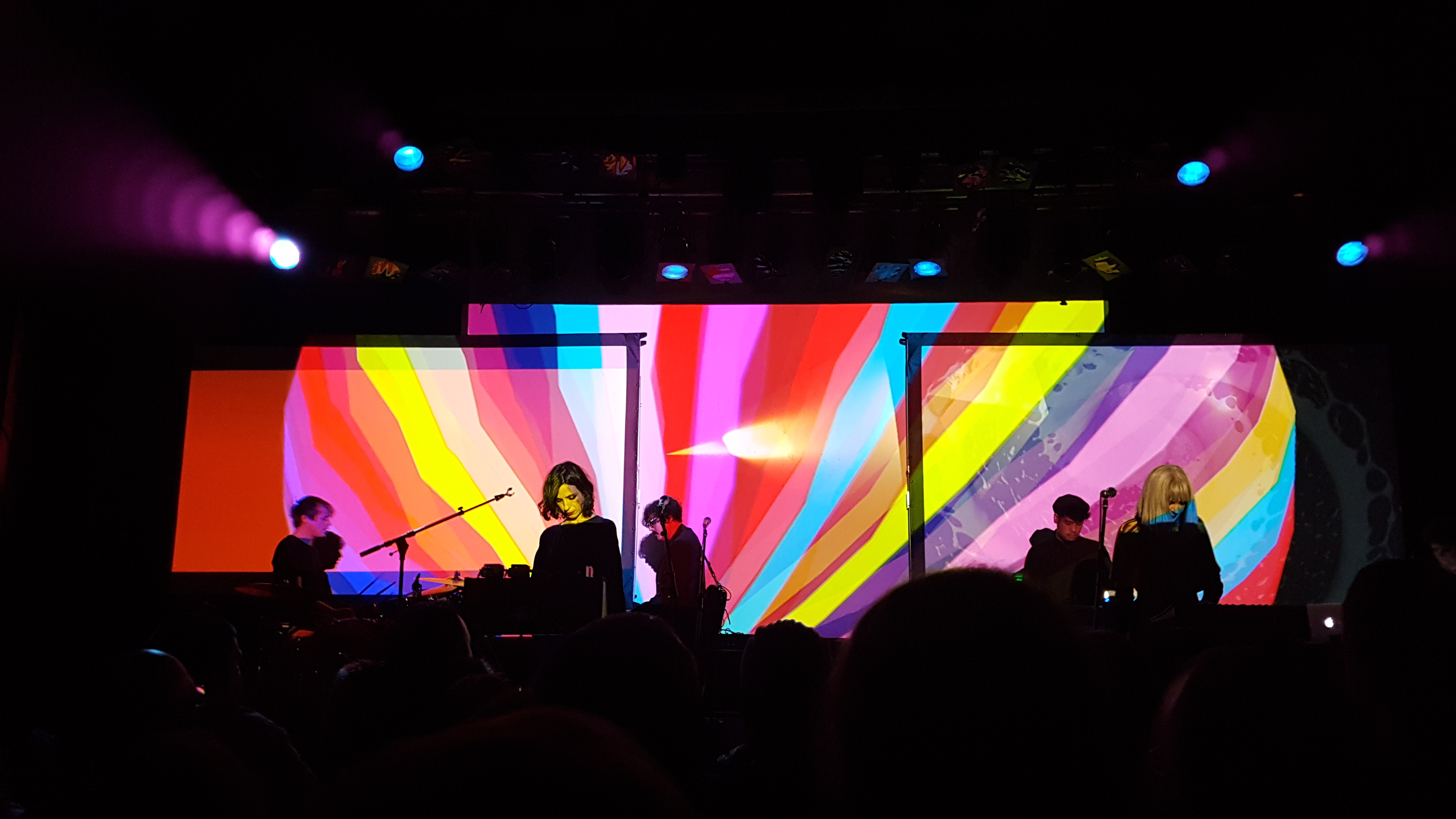 Ladytron playing at the Queen Margaret Union, University of Glasgow on 2nd November 2018. Their first gig after a seven year hiatus.